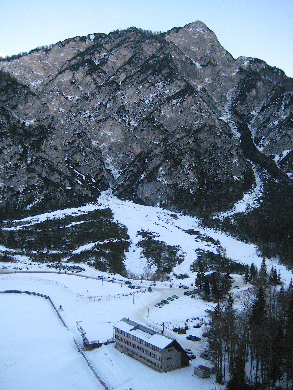 Ciprnik, mountain in Slovenia, below "Dom RTV Slovenia" in Planica